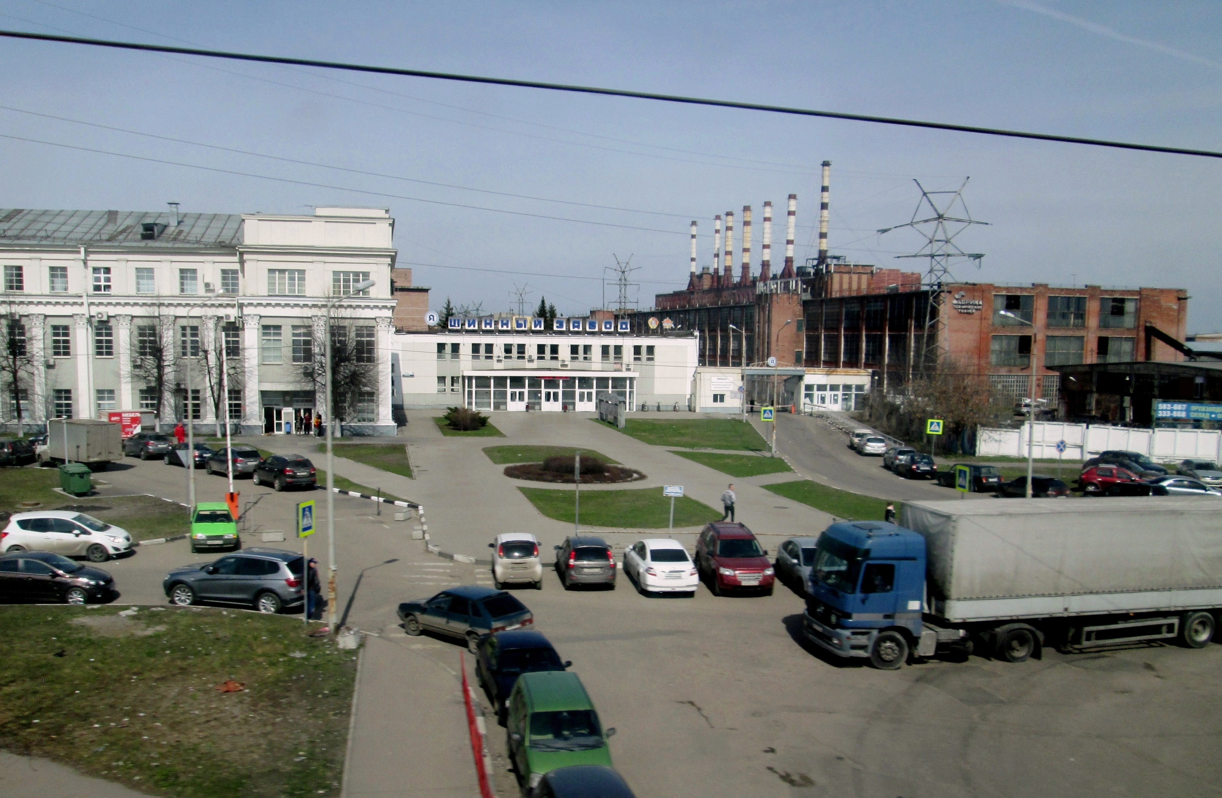 Yaroslavl Tire Plant